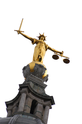 F. W. Pomeroy's 1906 statue of Justice on the dome of the Old Bailey (Central Criminal Court) in London, England, UK.